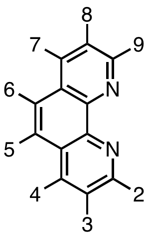 numbering for 1,10-phenanthroline derivatives